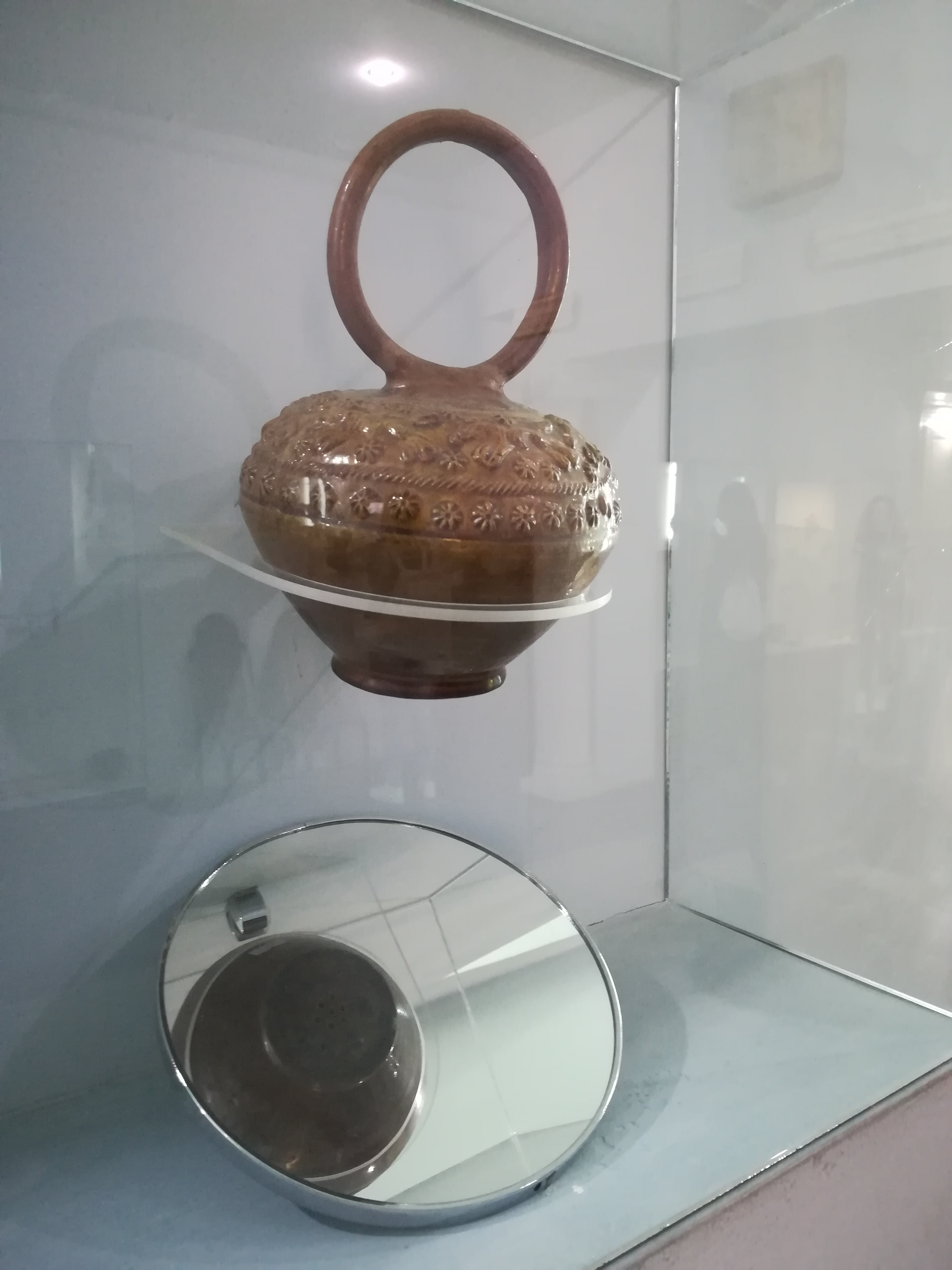 Water watch from the era of Ancient Rome, a permanent exhibition od the National museum in Pozarevac.